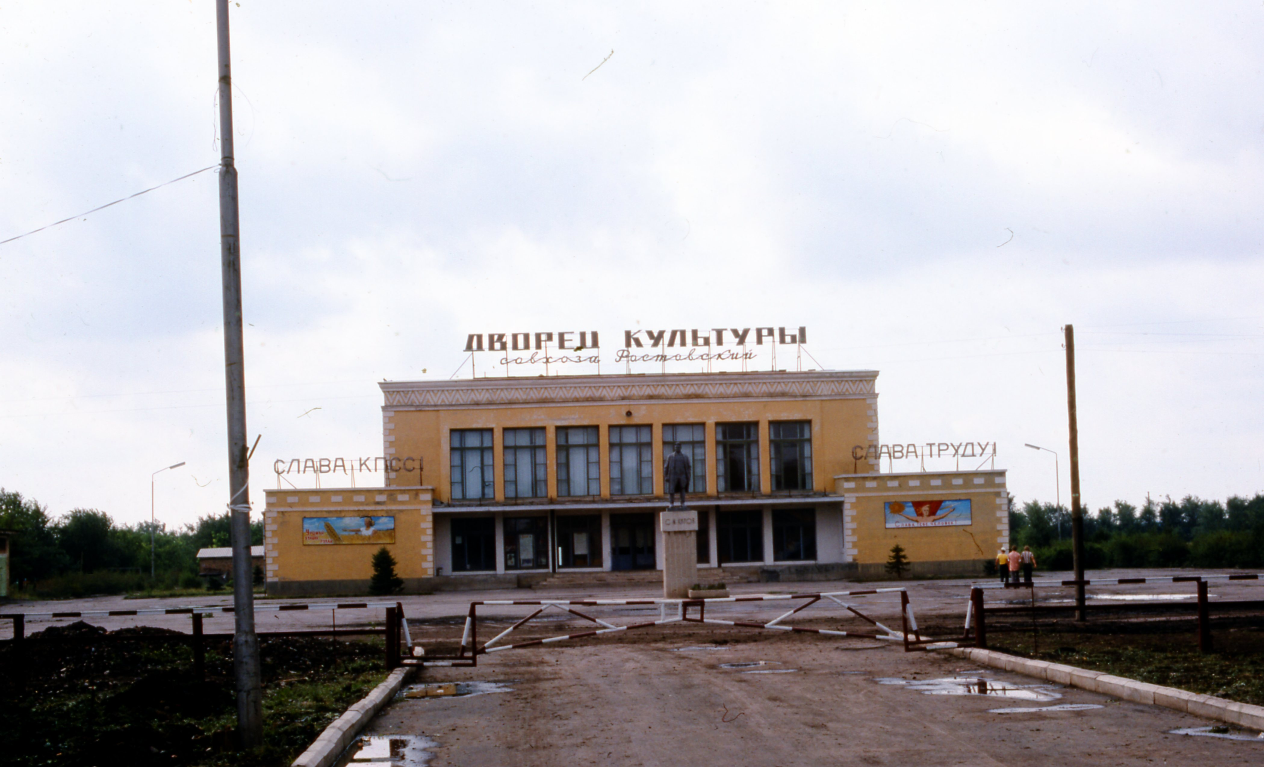 These images were taken by Thomas T. Hammond during his trip to the Soviet Union and his river cruise on the Don and his stop in Rostov. This specific image features the palace of culture in Kirovskaya, Rostov region.